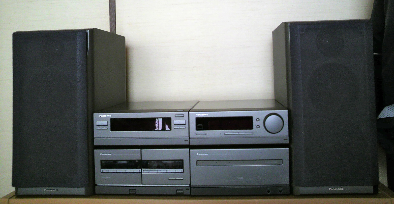 Panasonic Compornent System "Half" SC-CH10